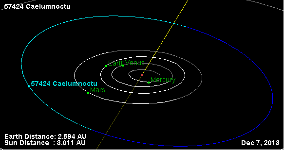 This diagram illustrates the orbit of the Main-Belt Asteroid 57424 Caelumnoctu.